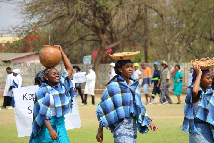 African students marching with their traditional dress in a festival. This is an image from Botswana